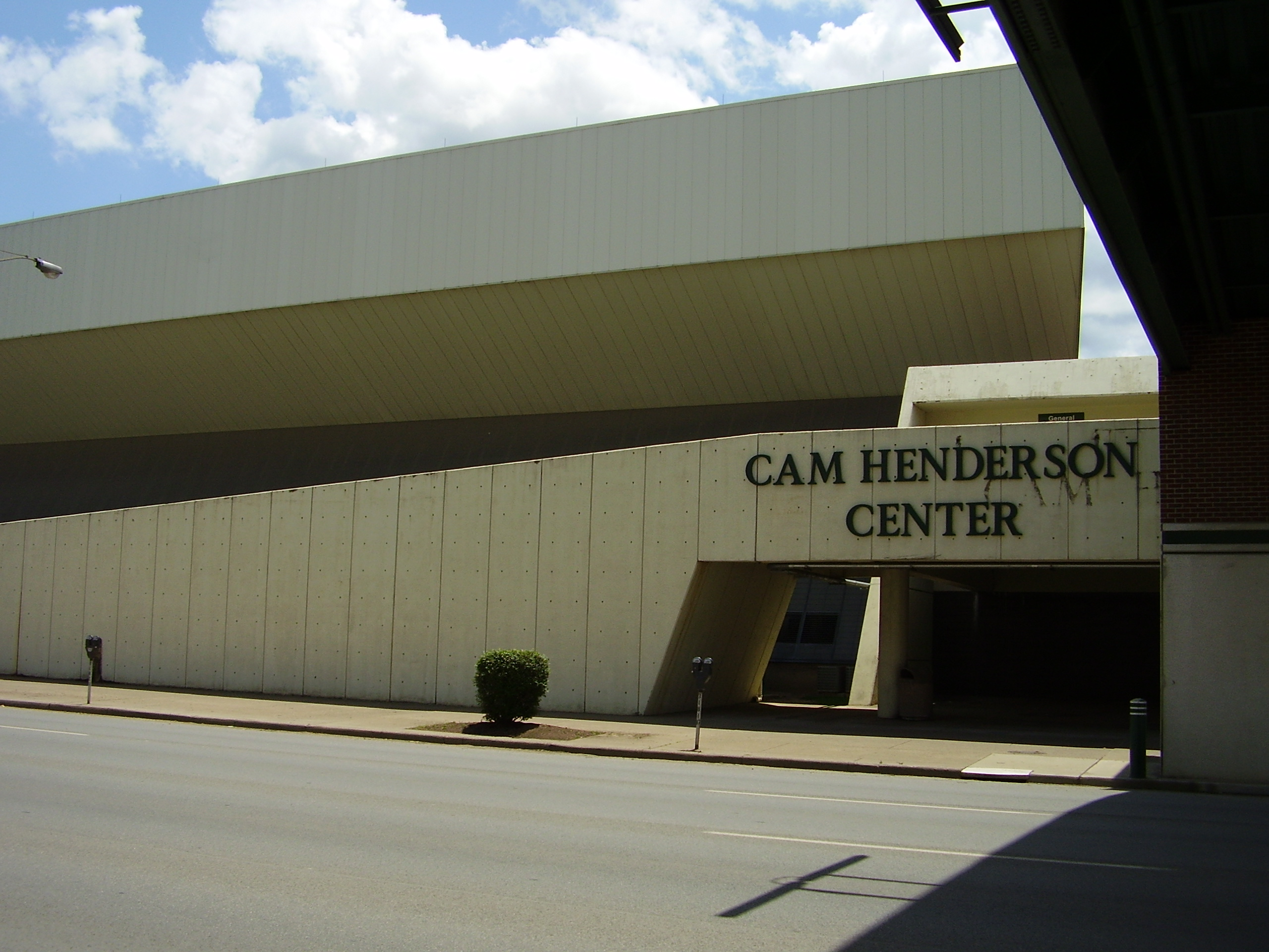 The Cam Henderson Center at Marshall University. Photo was taken across 3rd Ave from the arena, just under the crosswalk to the parking garage.